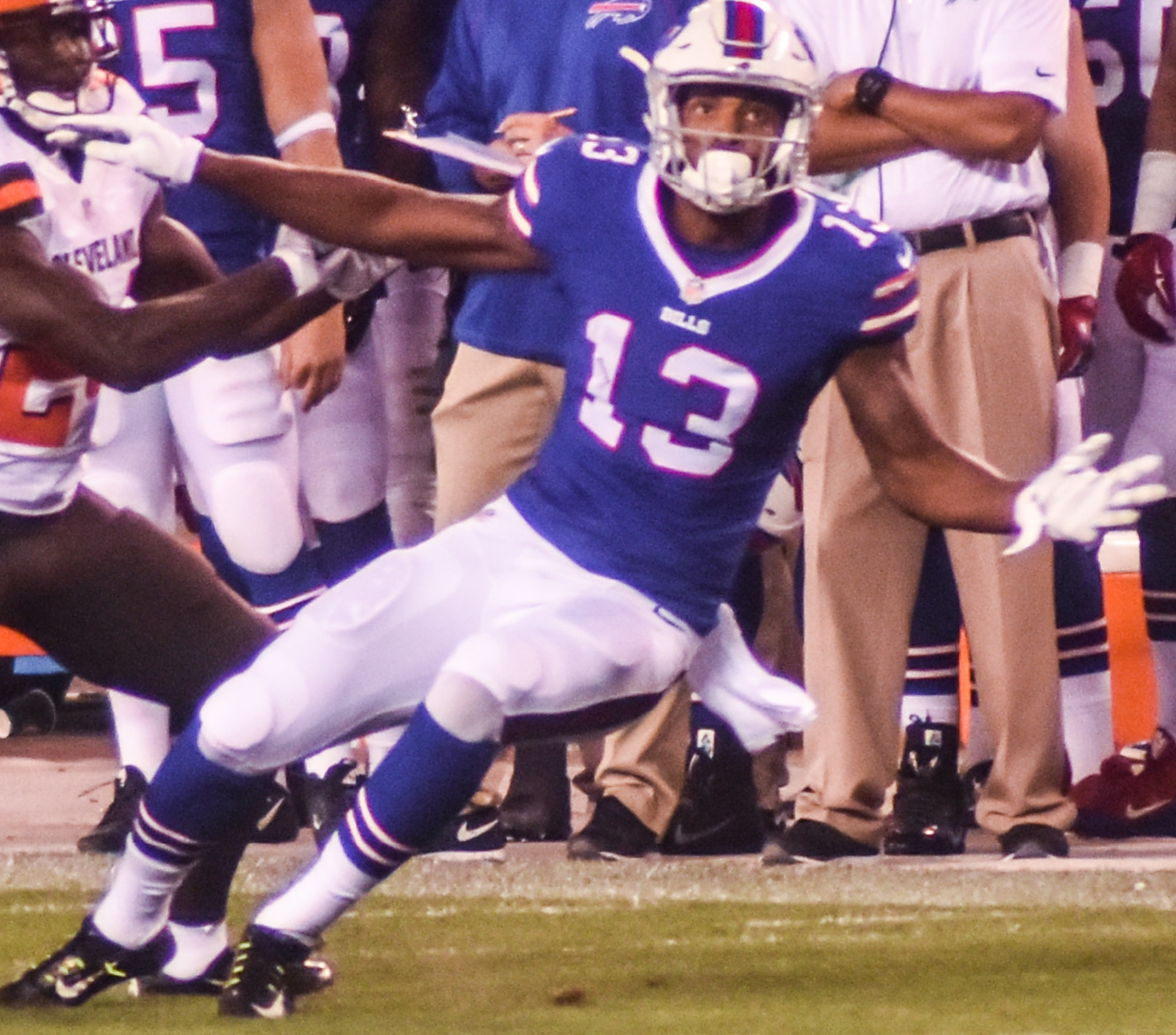 Cleveland Browns vs. Buffalo Bills